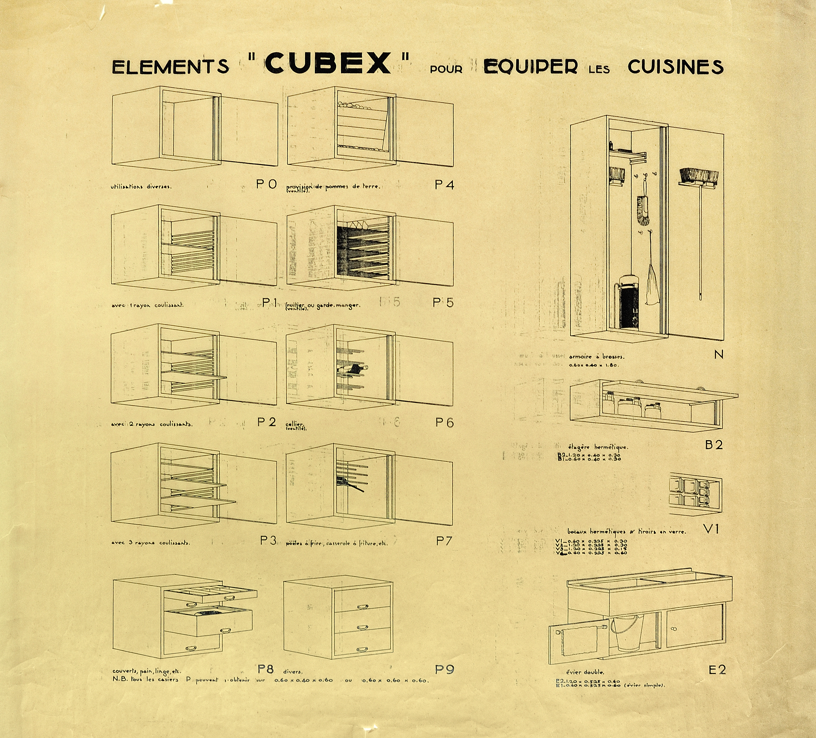 Cubex advertising folder